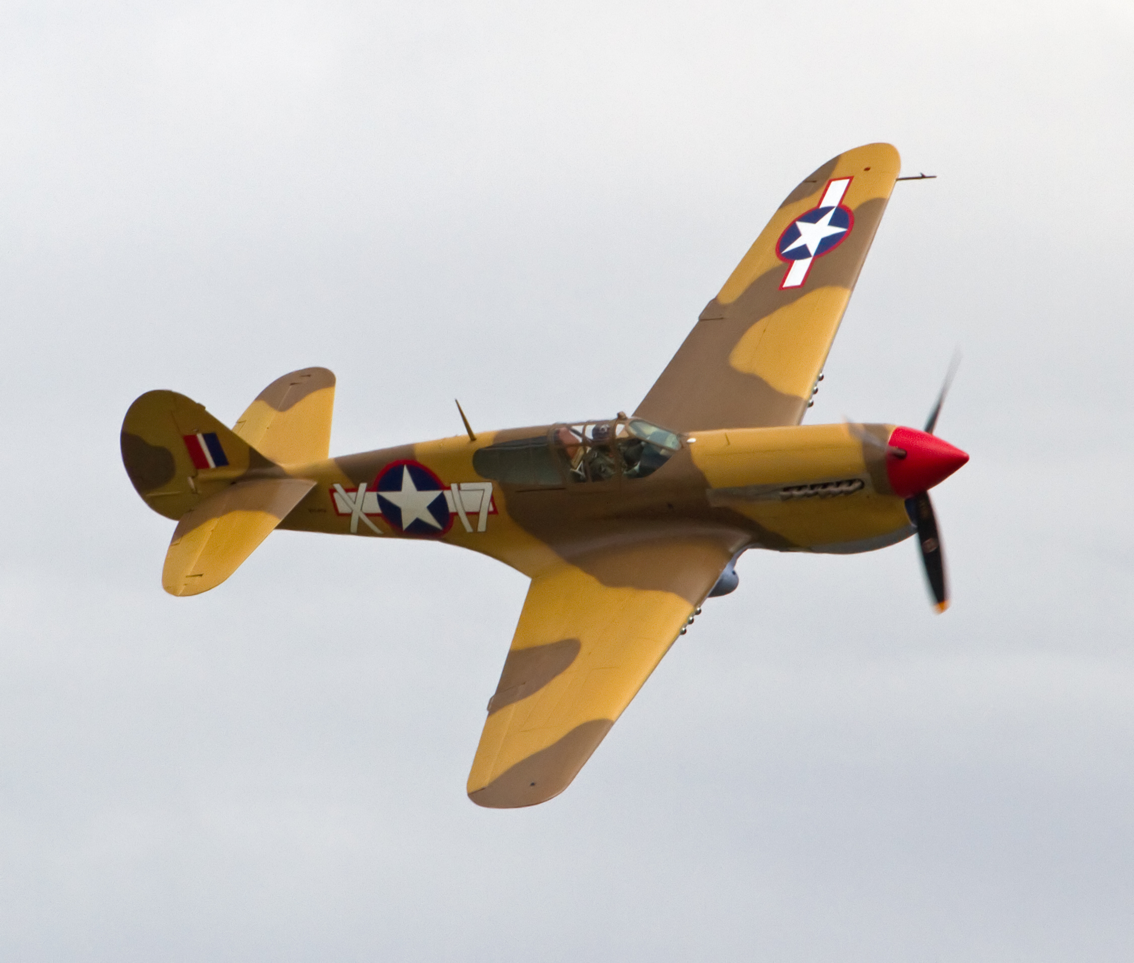 Curtiss P-40F Warhawk 41-19841 3